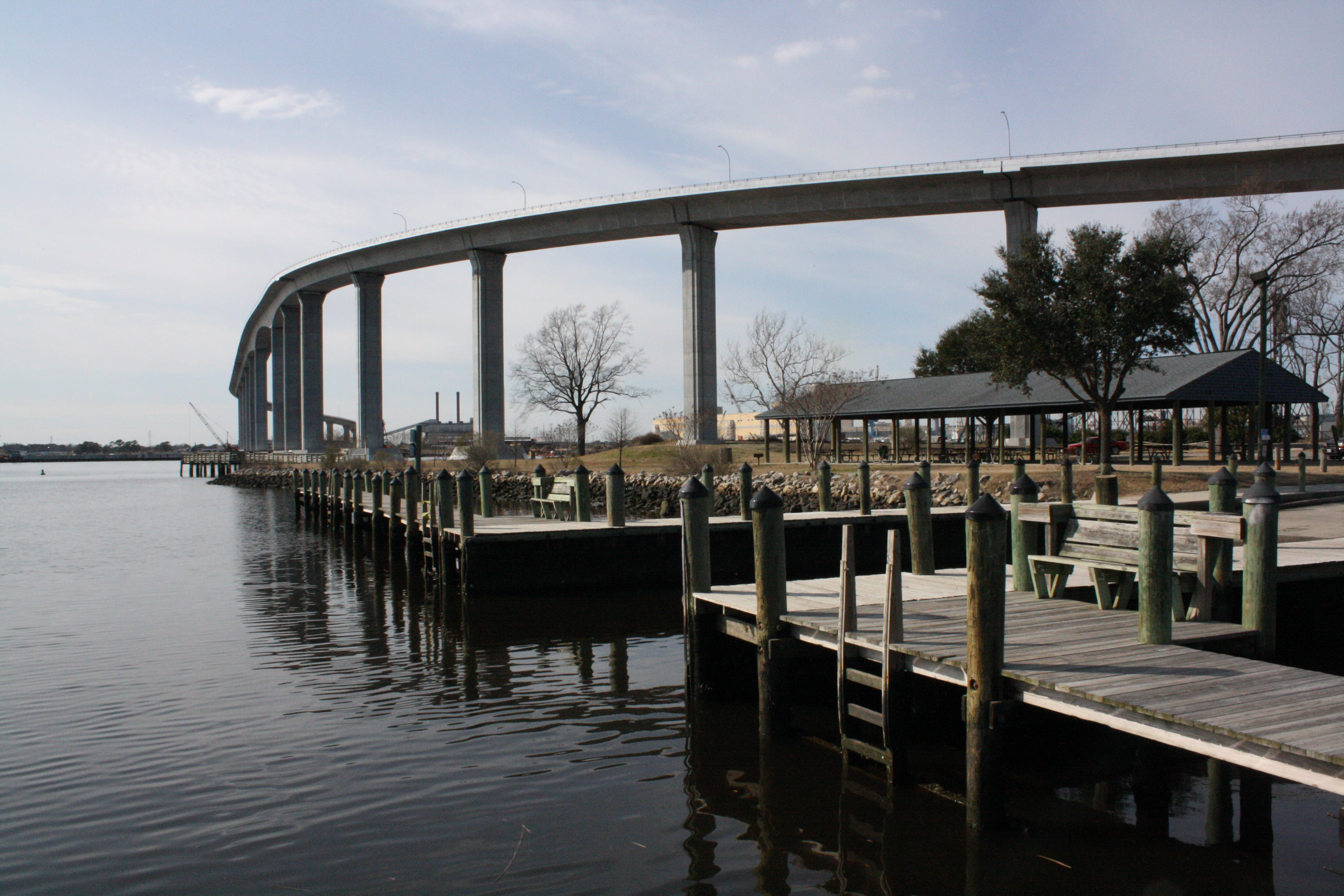 The South Norfolk Jordan Bridge looking towards Portsmouth from the Elizabeth River Boat Launch